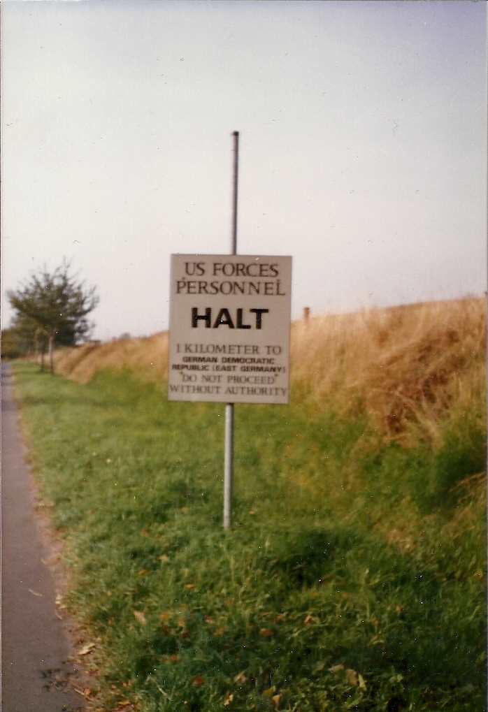 Sign warning of approach to within one kilometer of the inter-zonal German border during the Cold War in the 1980's.